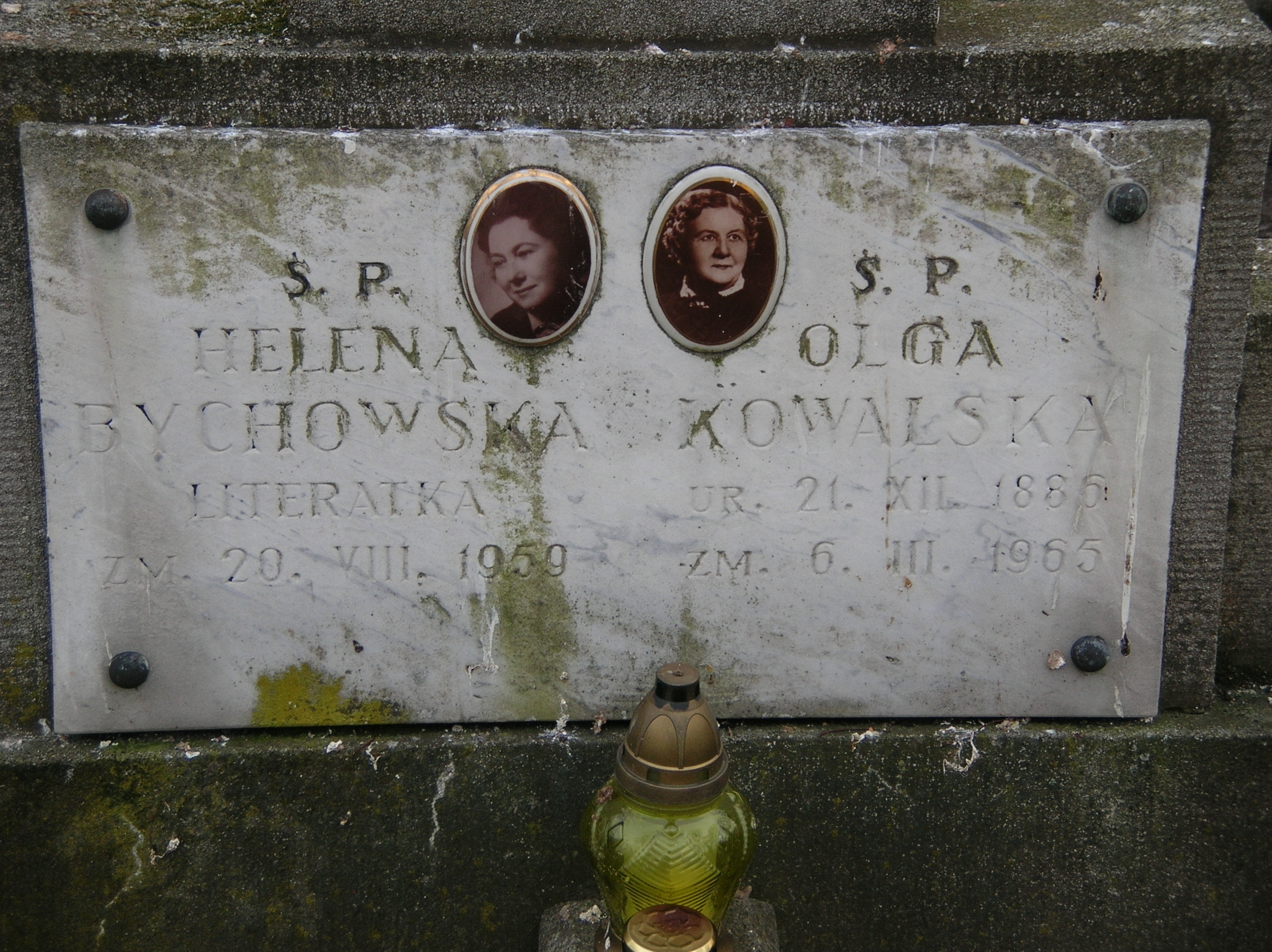 Tomb of Polish writer Helena Bychowska, Toruń